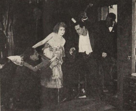 Still from the American film serial The Veiled Mystery (1920) with Pauline Curley, Antonio Moreno, and an unidentified actor, on page 104 of the September 4, 1920 Exhibitors Herald.